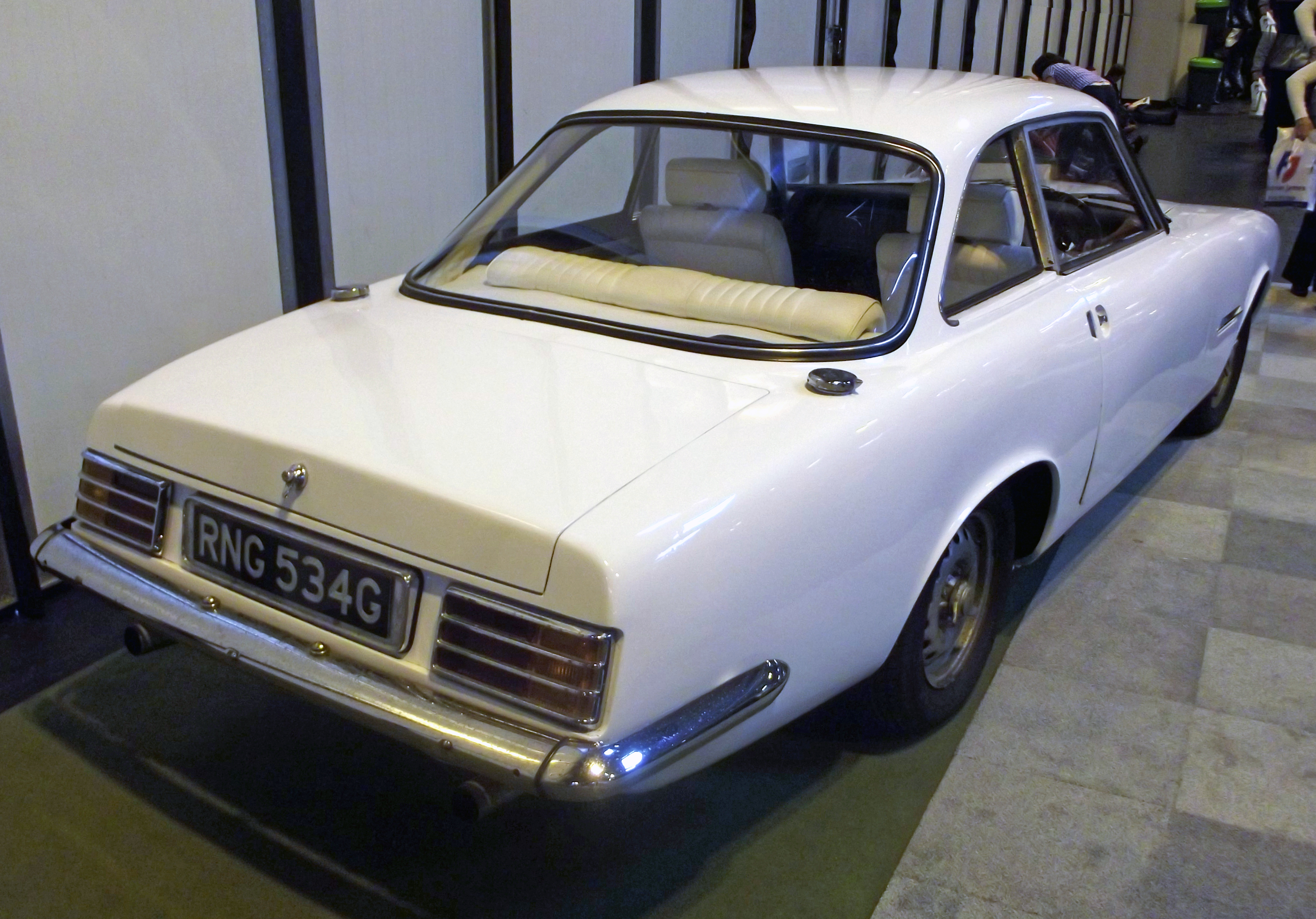 1968 De Bruyne GT - a rebadged and redesigned Gordon-Keeble shown at the New York Auto Show in a 1968 attempt by American investor John de Bruyne to revive the car.